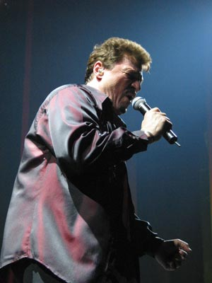 Bobby Kimball - Singer - Rockband TOTO Photgrapher: Mark Regemann (Wikipedia user Jorainbo2001) Date and Place of Picture: TOTO Concert in Mannheim/Germany - February 2003